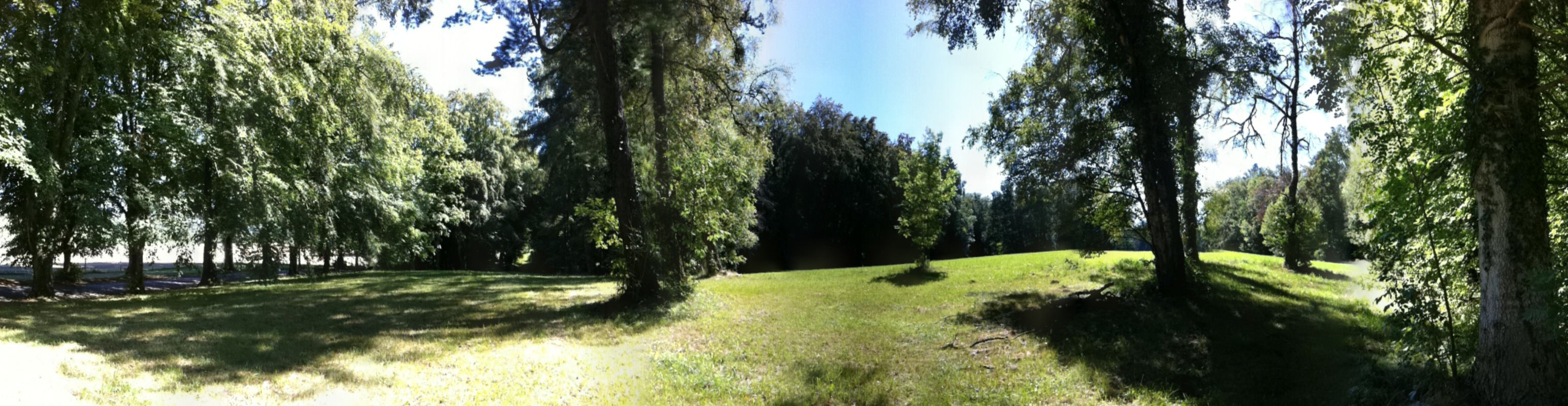 Bois-Murat Park, Corminboeug, Fribourg, Switzerland